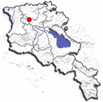 Location map for , Armenia.